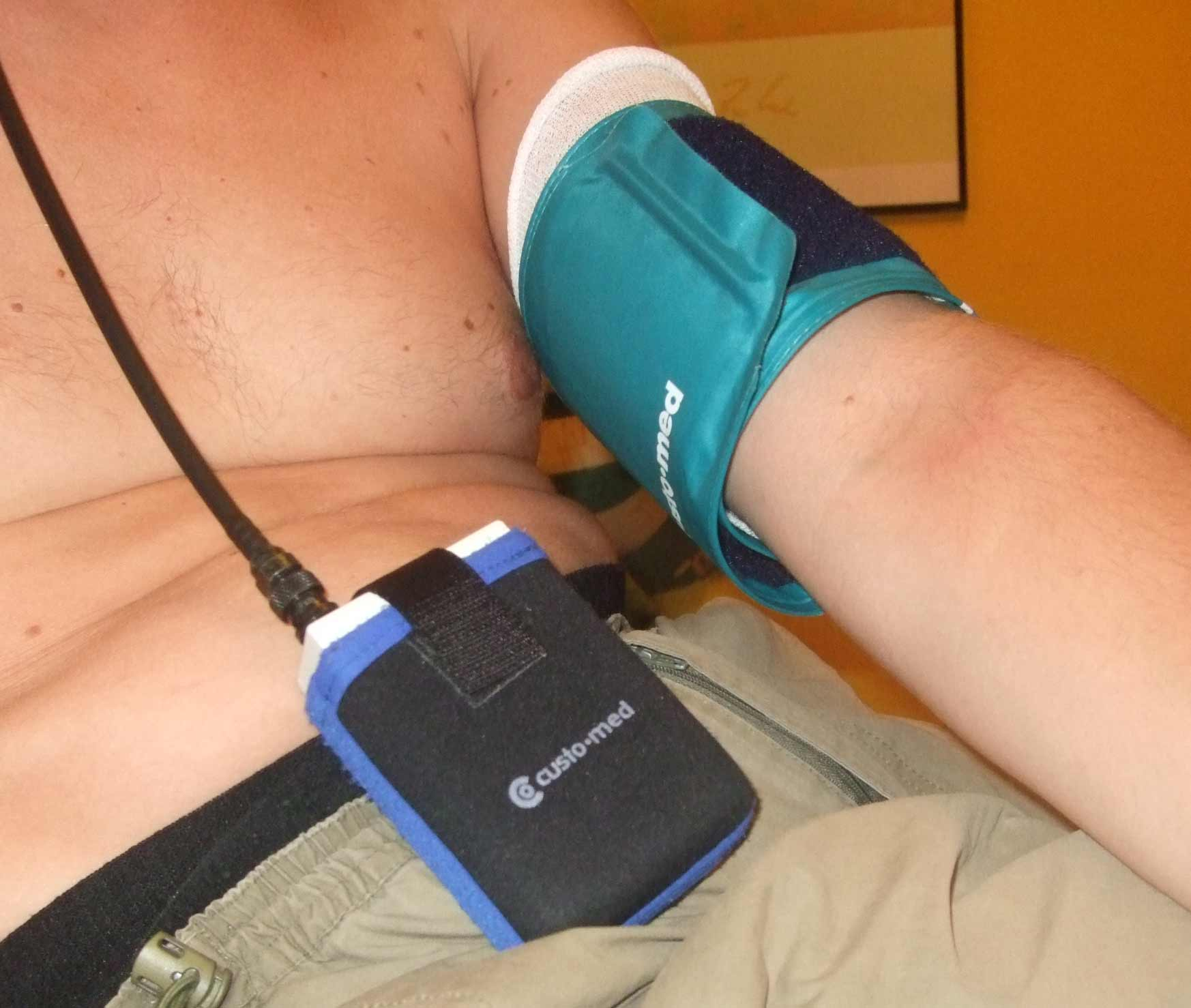 Long-term blood pressure measurement on the upper arm using a digital measuring device.(Blood pressure table of the World Health Organization WHO)